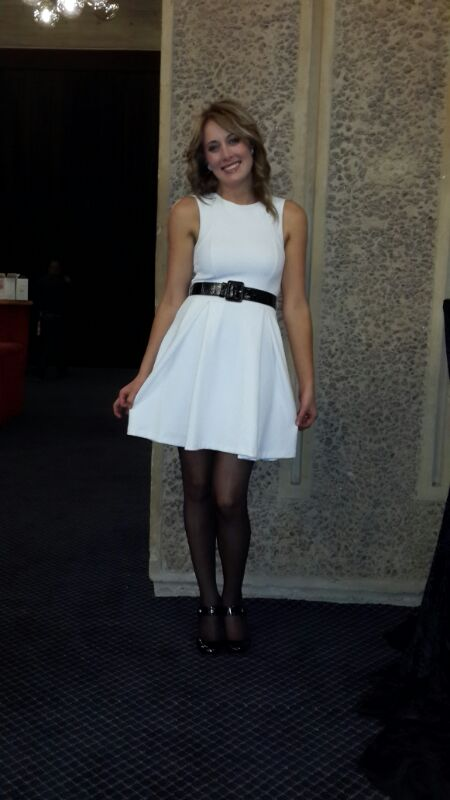 At State Theatre (Liefling)